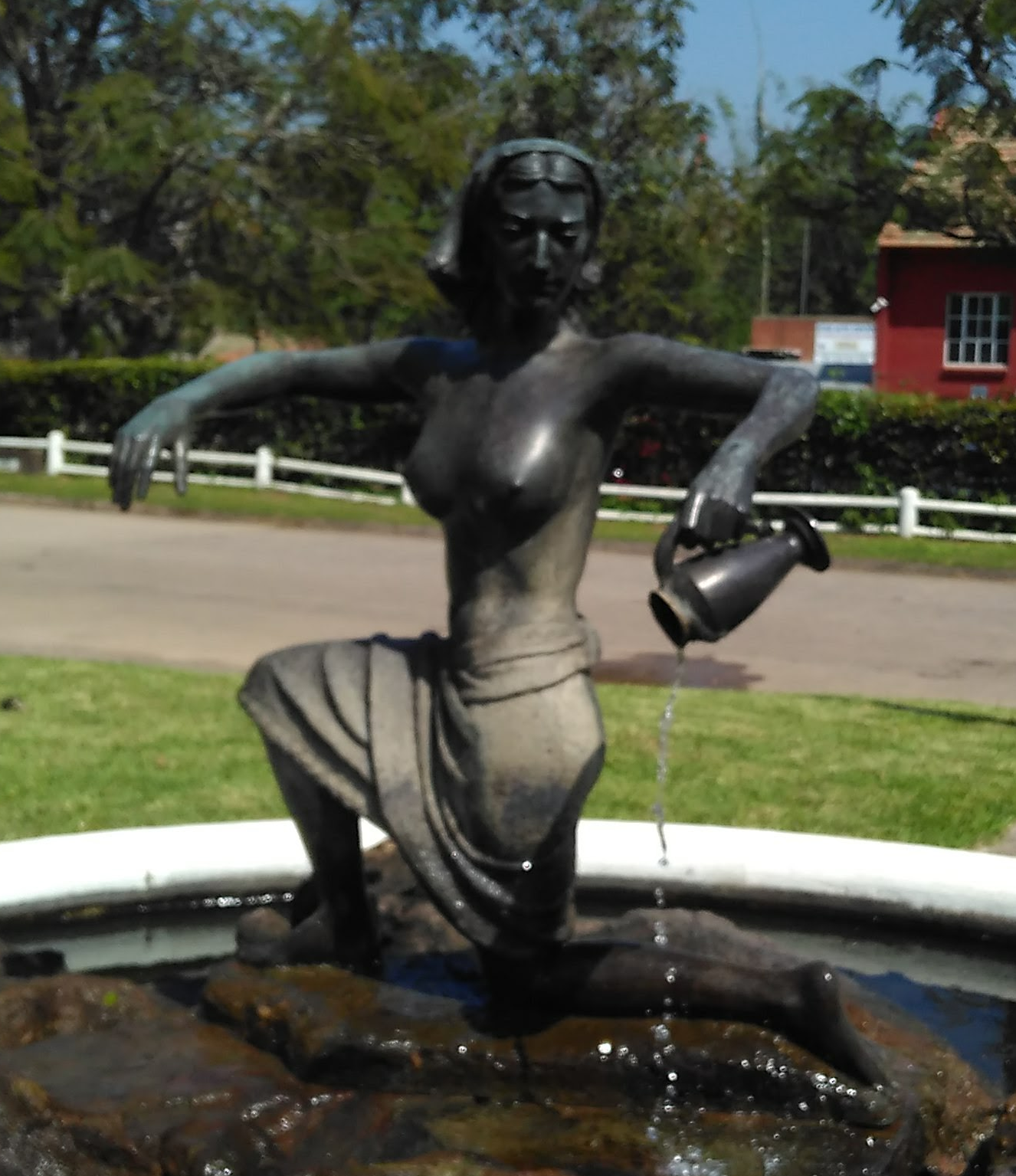 A photograph taken by me of a statue of Ansuyah Ratipul Singh, the statue stands in the Amanzimyana gardens in Tongaat